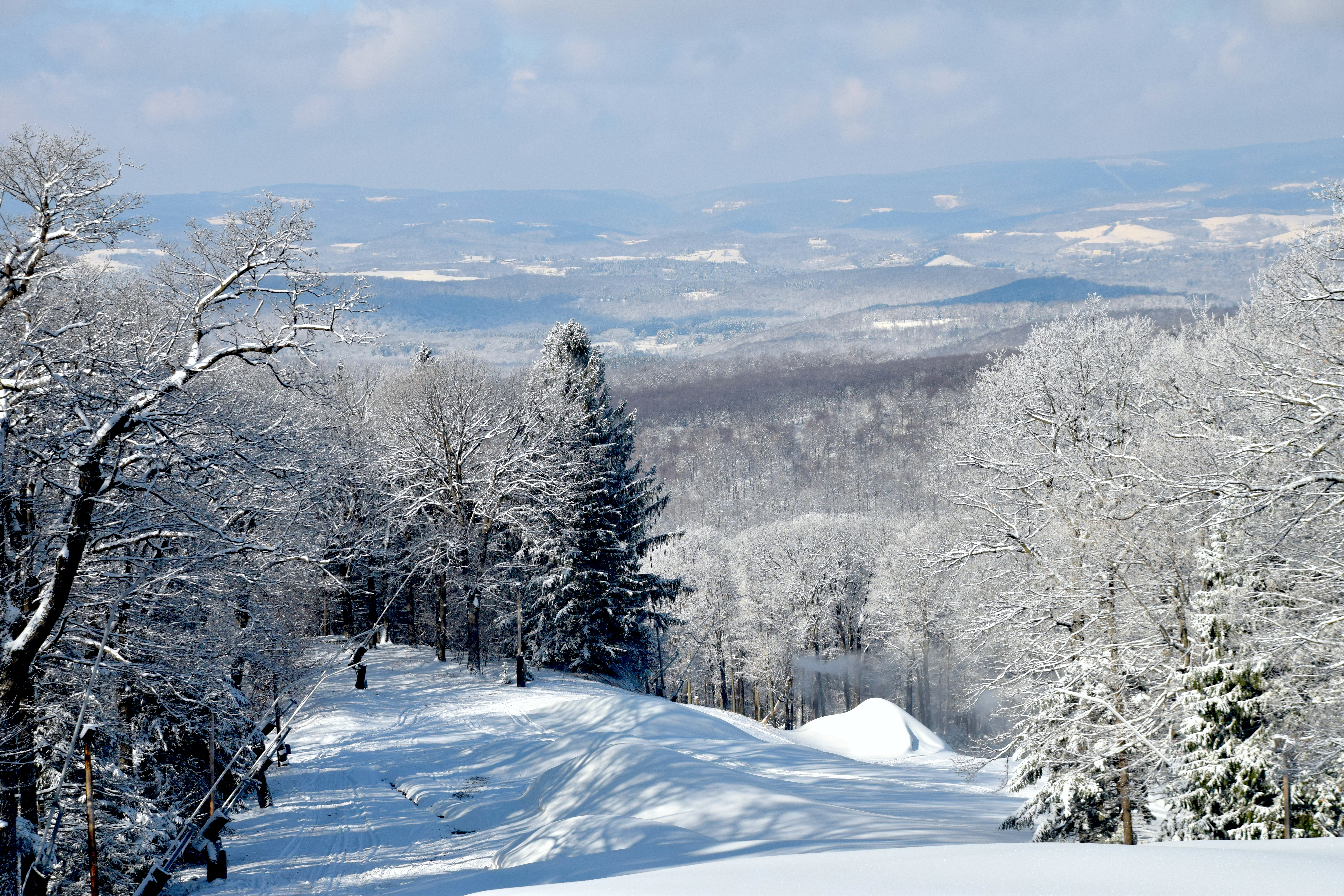 Incredible vistas